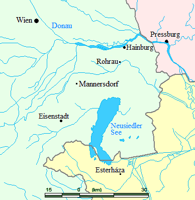 Map of region where Joseph Haydn spent most of his life. German text.